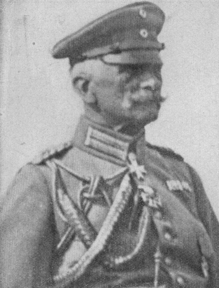 "General Von Mackensen Famous for campaigns in Galicia, Serbia, Rumania, and Italy" (caption)